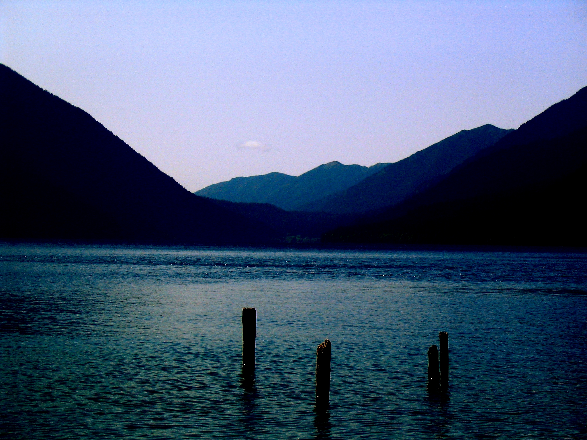 Lake Crescent, WA, USA